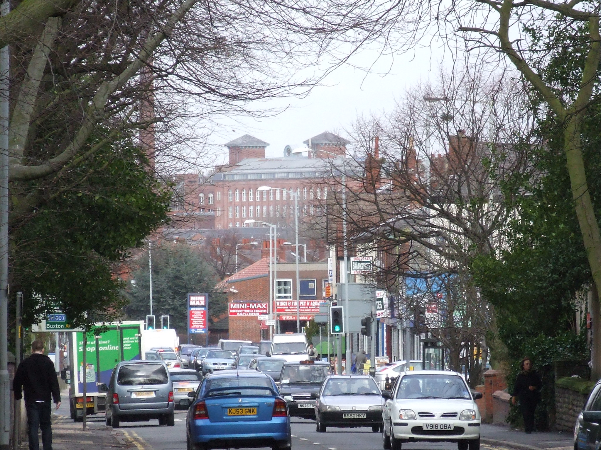 Heaton Moor is situated in Stockport, in the direction of Manchester. It is a railway suburb, served by Heaton Chapel railway station. The railway runs parallel to the A6, and the moor is on the other side of the railway... . From Heaton Chapel railway station looking along Heaton Moor Road, over the traffic lights on the A6, Wellington Road North and further the lights on the A626. In the distance we see Houldsworth Mill in Reddish.